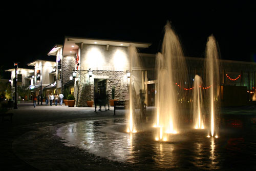 I took this photo myself.